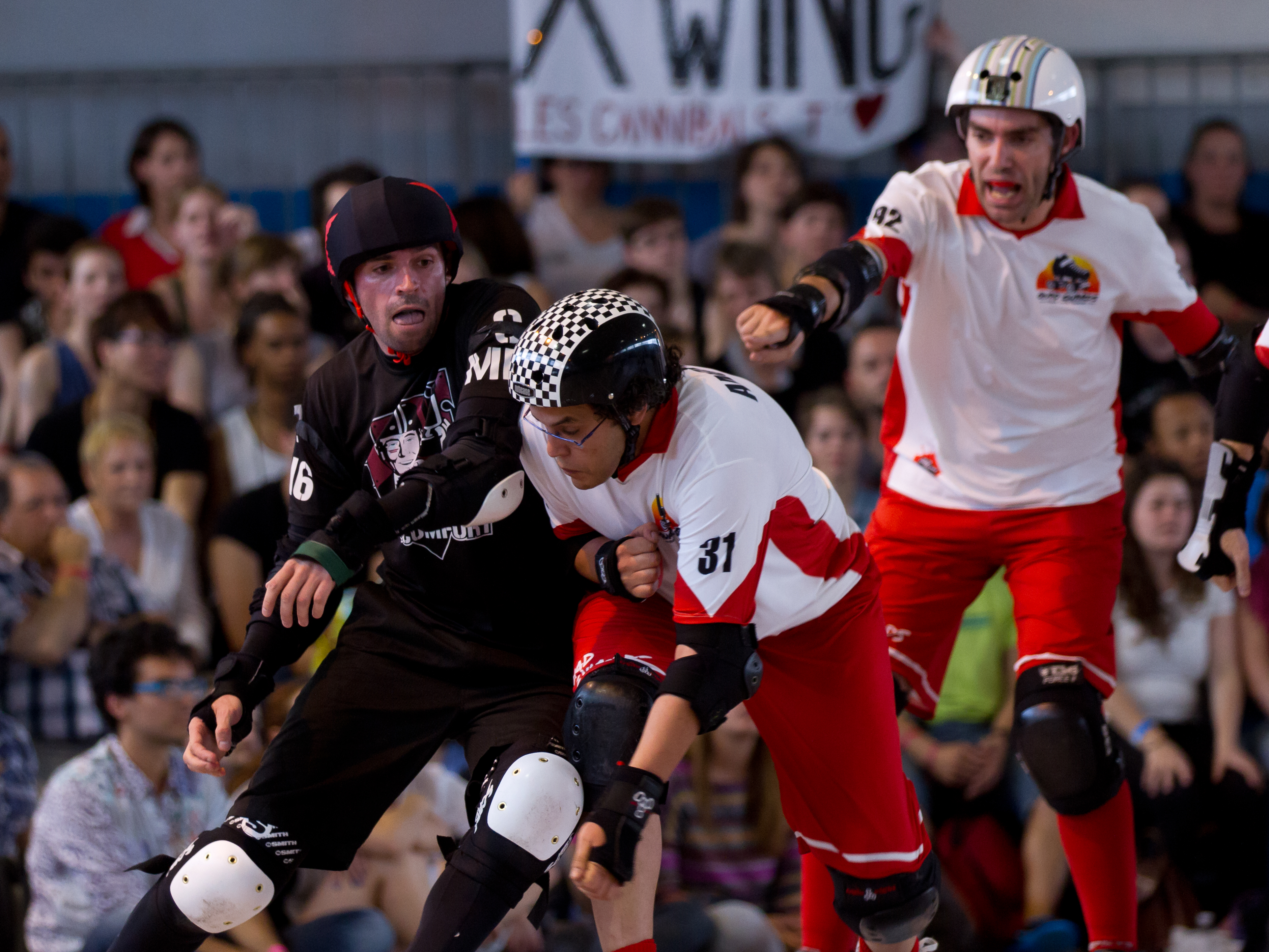 French Connection III — 29 June 2013, Gymnase Arnauné. Match between: Quad Guards — Southern Discomfort